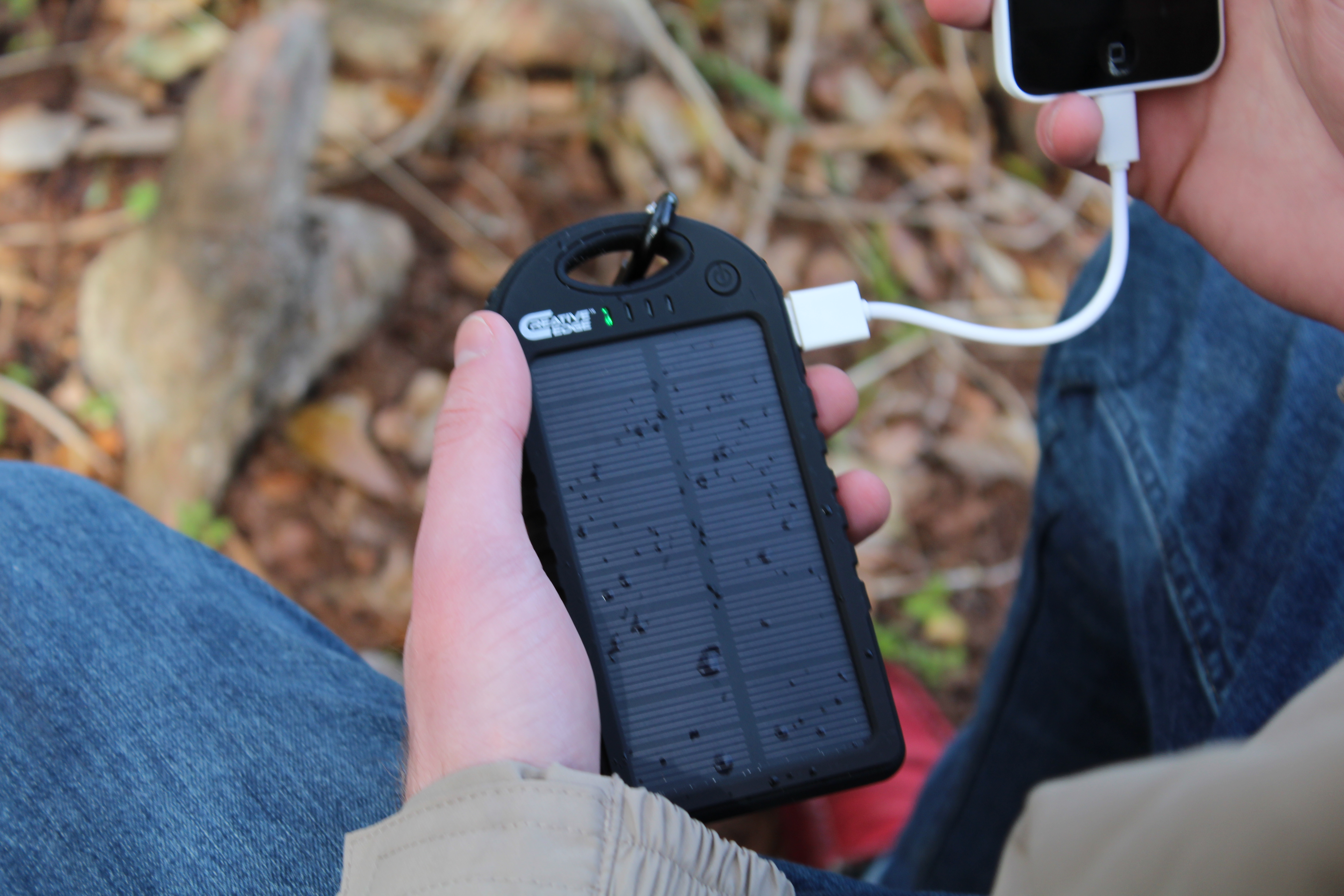 Creative Edge Solar-5, 1.2w solar panel with 5000mAh internal battery.